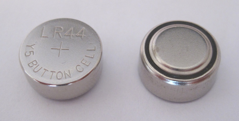 Two identical LR44 button cell alkaline batteries (showing top side and underside). Also known as LR1154, AG13, A76, 157 (alkaline), SG13, S76, 1166A